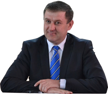 Daniel Țuchel, primar Tecuci, Jud Galați